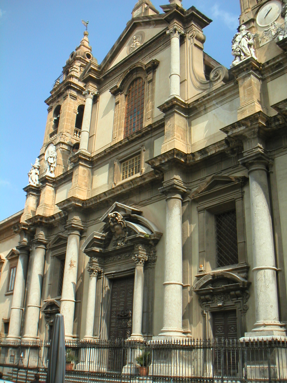 Sant'Ignazio all'Olivella Church (Palermo, Italy)